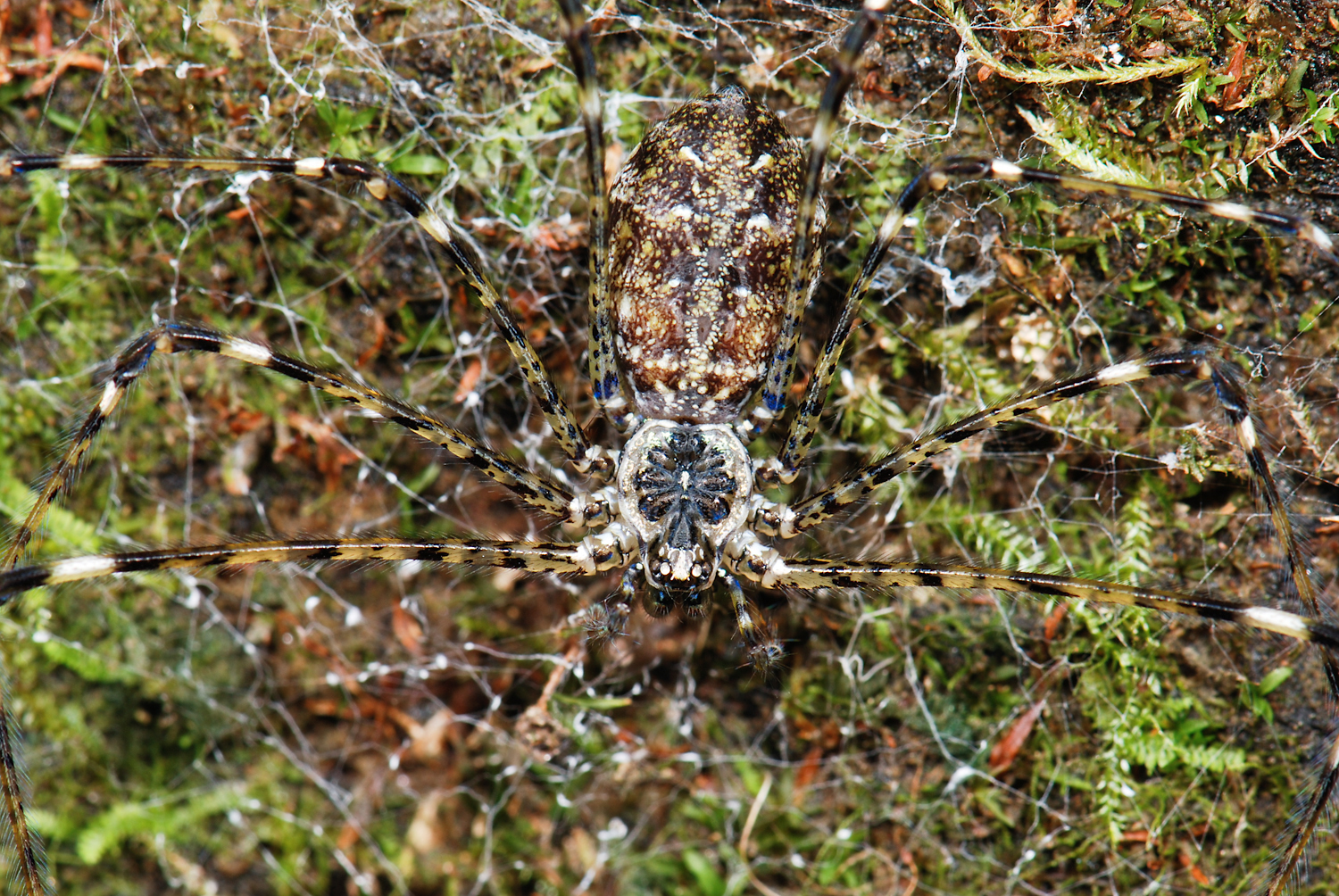 Hypochilus pococki, female lampshade spider, in web on rockface, western North Carolina